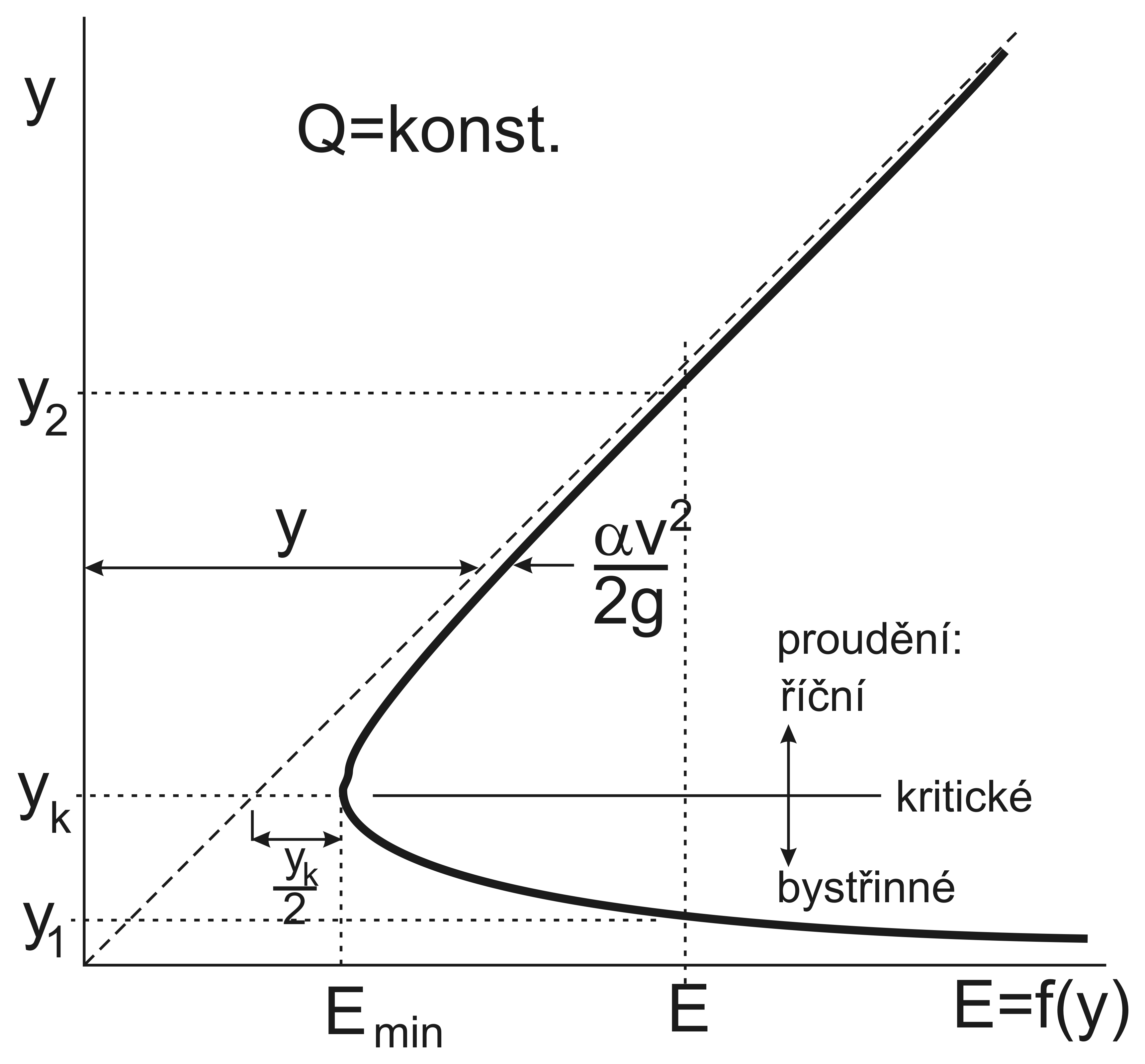 Specific energy of water flow and types of flow